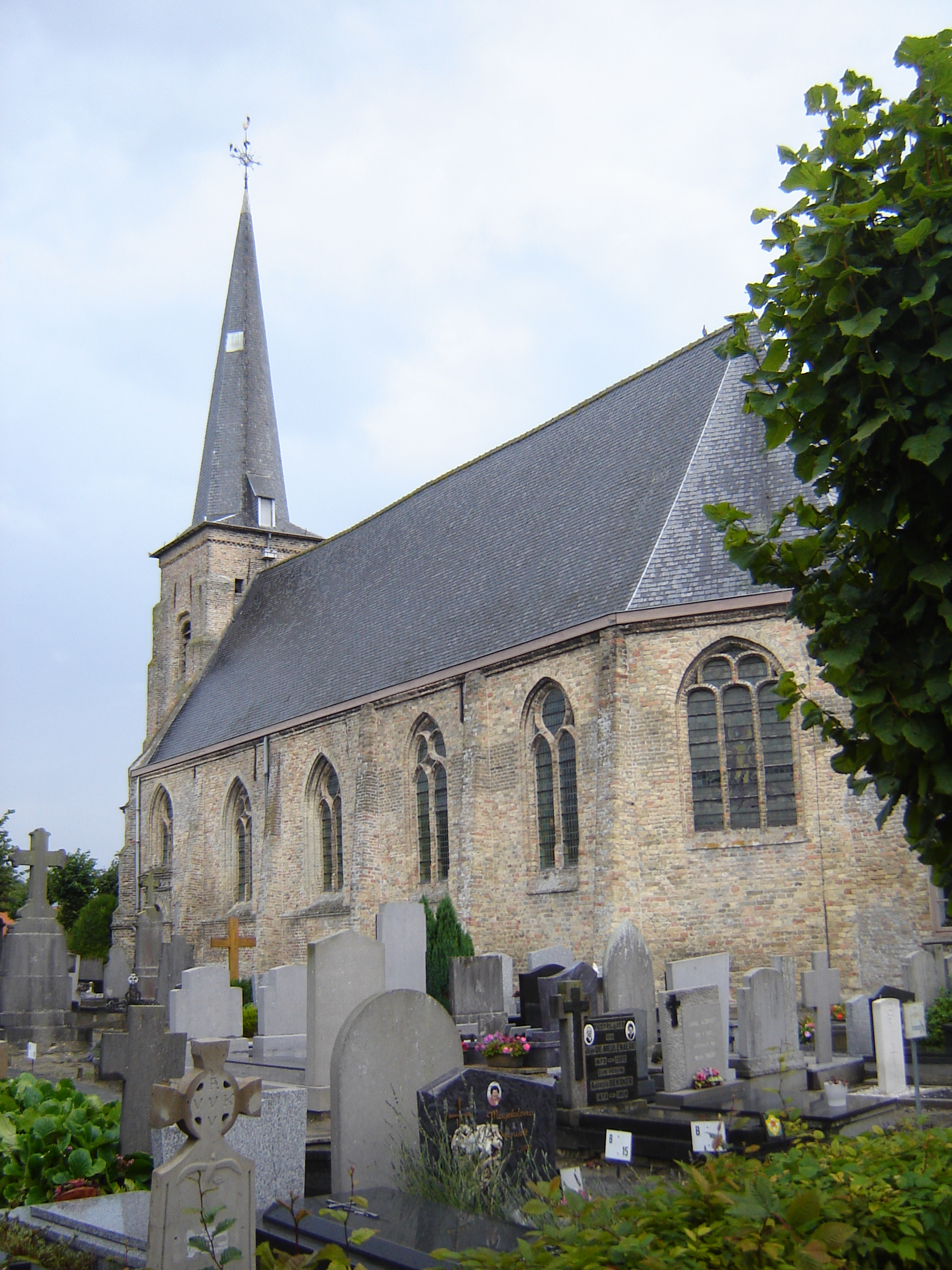 Church of Saint Michael in Avekapelle. Avekapelle, Veurne, West Flanders, Belgium